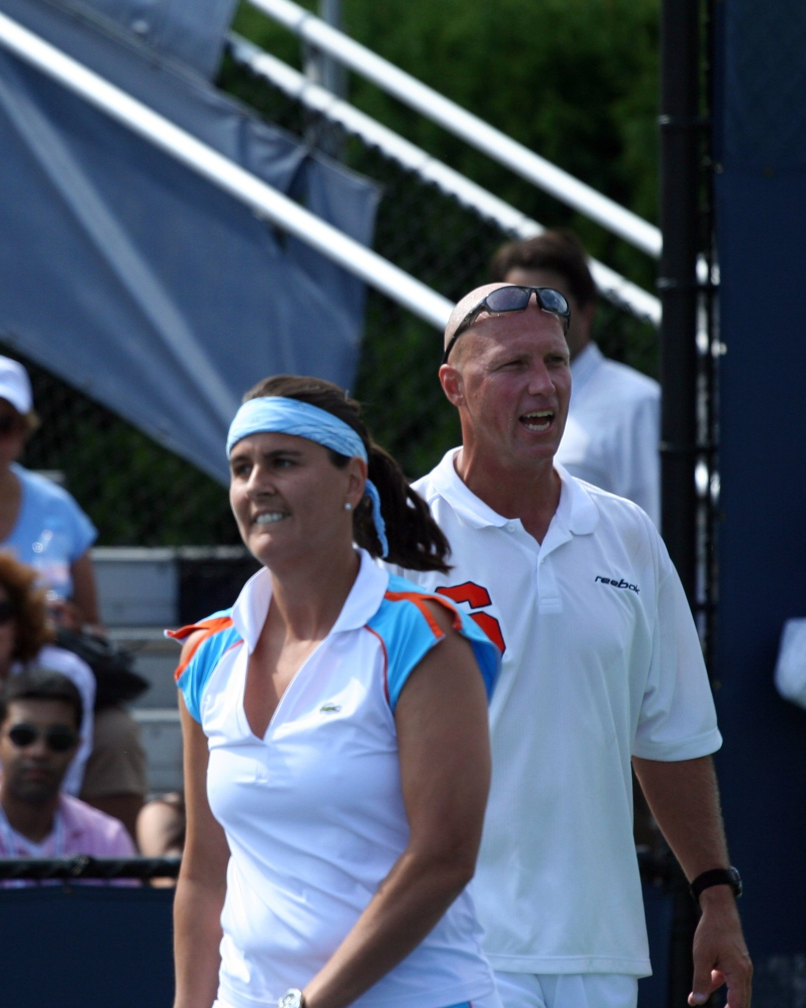 U.S. Open Champions Team Tennis Wednesday, Sept. 9, 2009